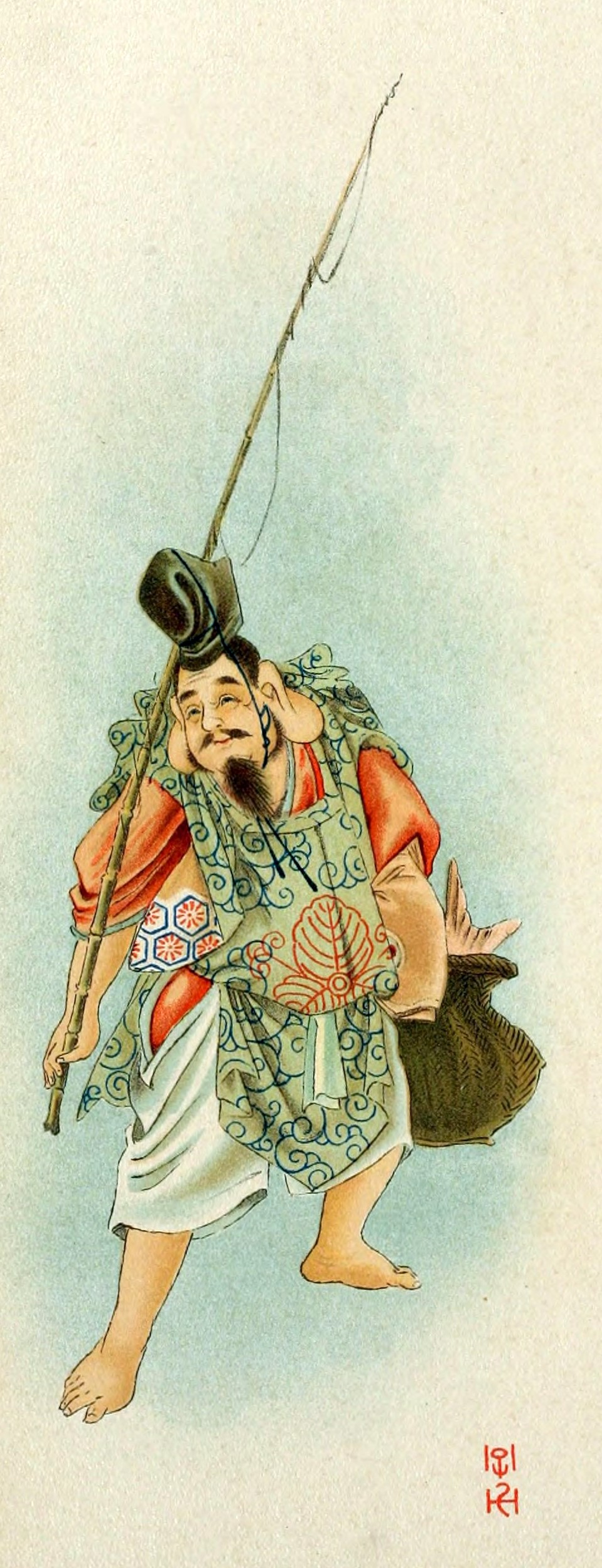 Ebisu, from Mythological Japan : the symbolisms of mythology in relation to Japanese art, with illustrations drawn in Japan, by native artists (1902)